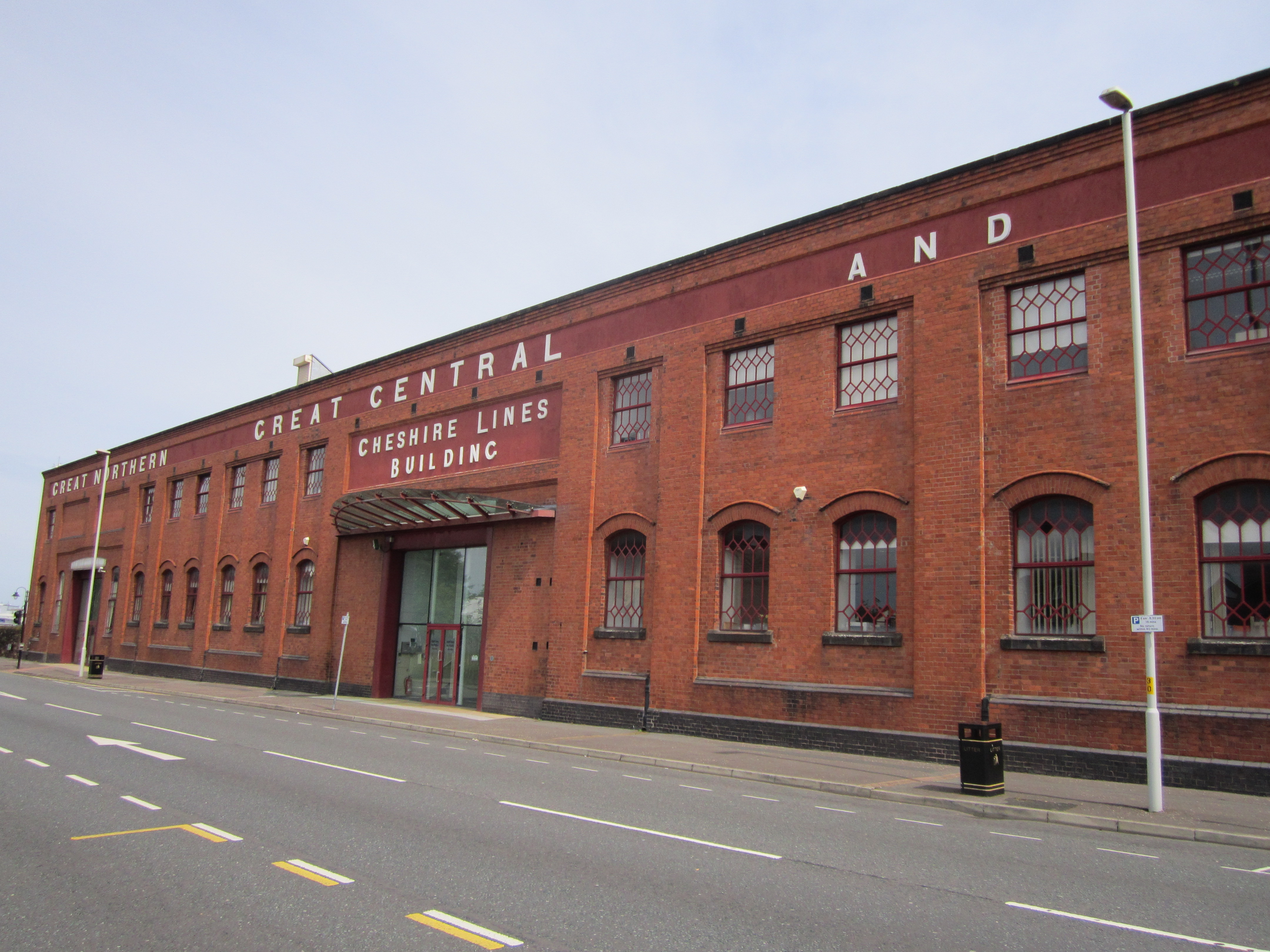 Cheshire Lines Building, Birkenhead , Merseyside, England.